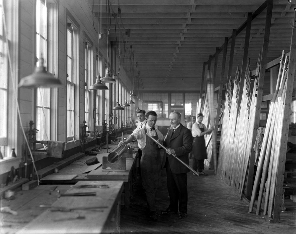 Cassavant Organ Co. - Interior of the pipe shop - St. Hyacinthe, Que. Company now known as Casavant Frères. Inside View of the Organ Factory, 1930 The Casavant Frères factory of St-Hyacinthe, in the province of Québec, is one of the most famous organ factories in the country. Founded in 1879, the company has installed over 4,000 models of organs worldwide. Source: Bibliothèque et Archives nationales du Québec. Québec City Archives Centre, L'Action catholique Archive Group. Classification: P428, S3, SS1, D29, P38. Year: 1930